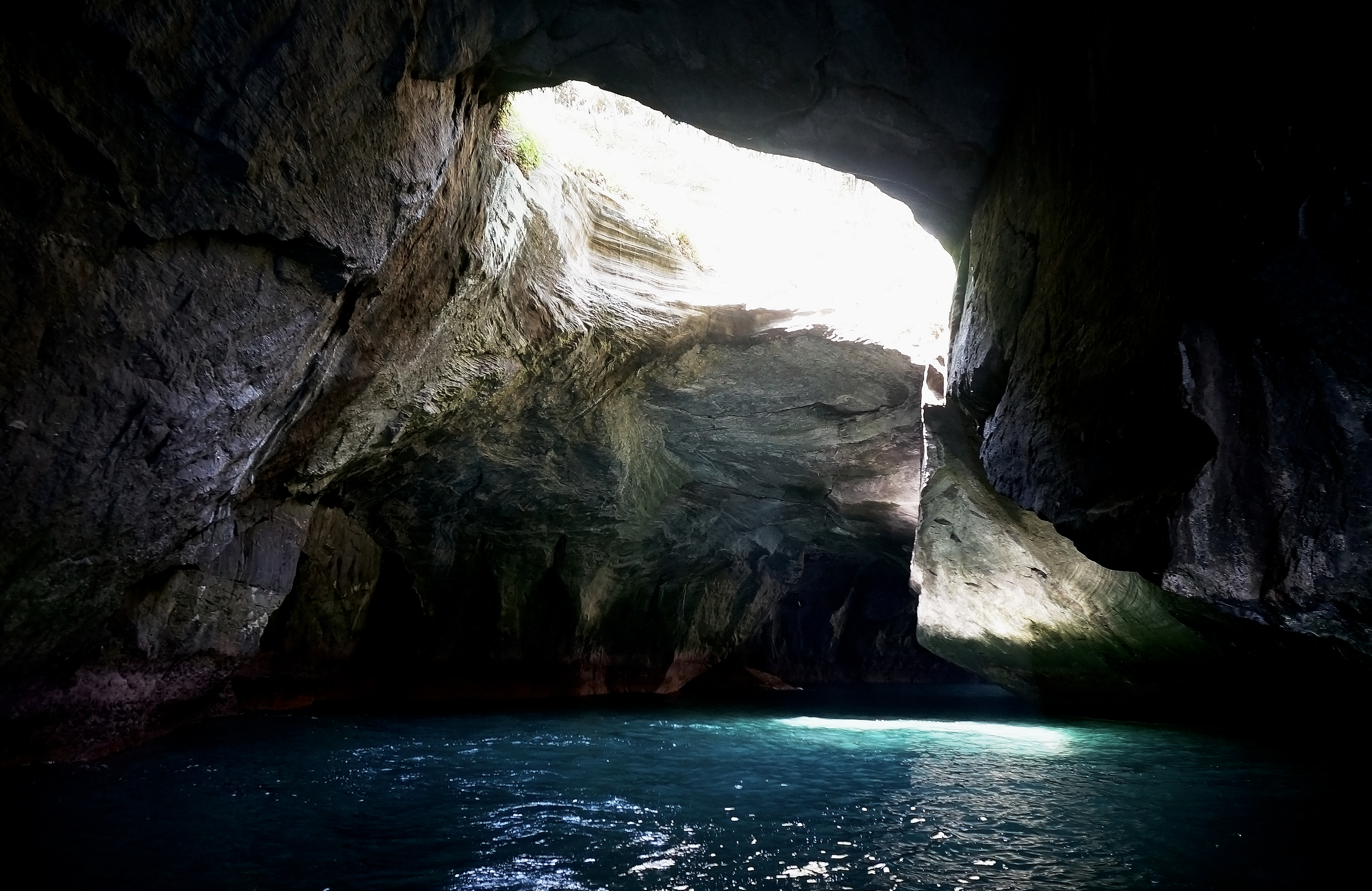 Tensodo cave in Nishiizu, Shizuoka Prefecture, Japan.